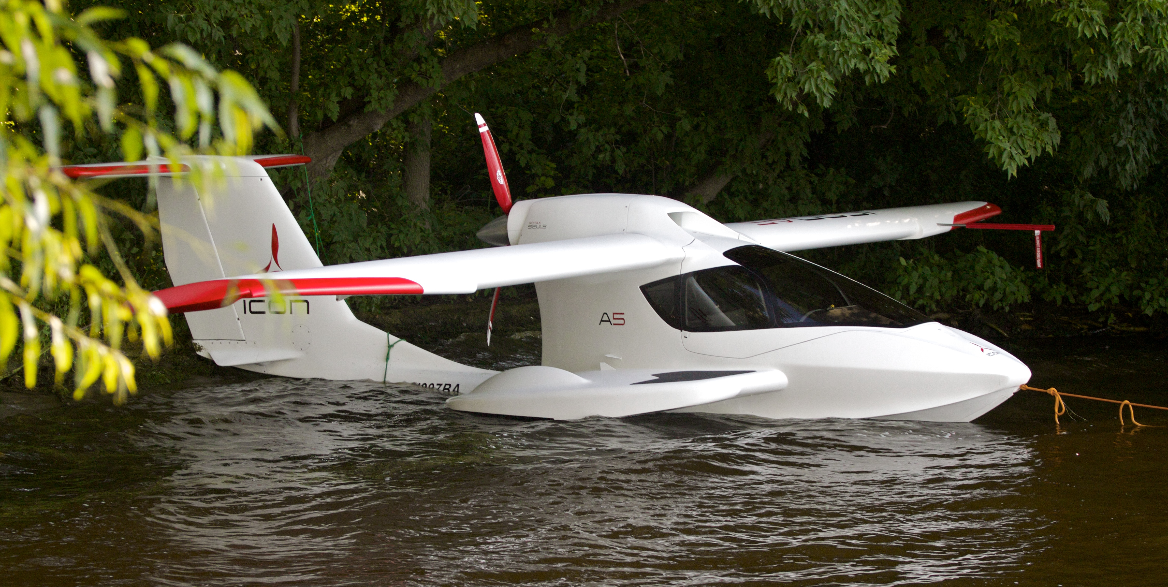 The Icon A5 amphibious aircraft, tail number N997BA, at the 2010 EAA AirVenture Oshkosh. Photograph was taken at the Air Harbor Seaplane Base in Oshkosh, Wisconsin, United States. FAA Registry